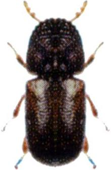 This image of D. minutus at " is an image in the public domain with no copyright or any other constraints whatsoever.